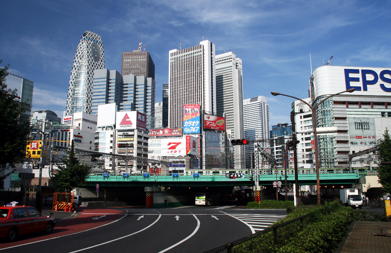 Shinjuku O-gard and skyscrapers.